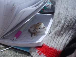 Malaysian plover chick, less than 1 week old. Photo by Mai Yasue